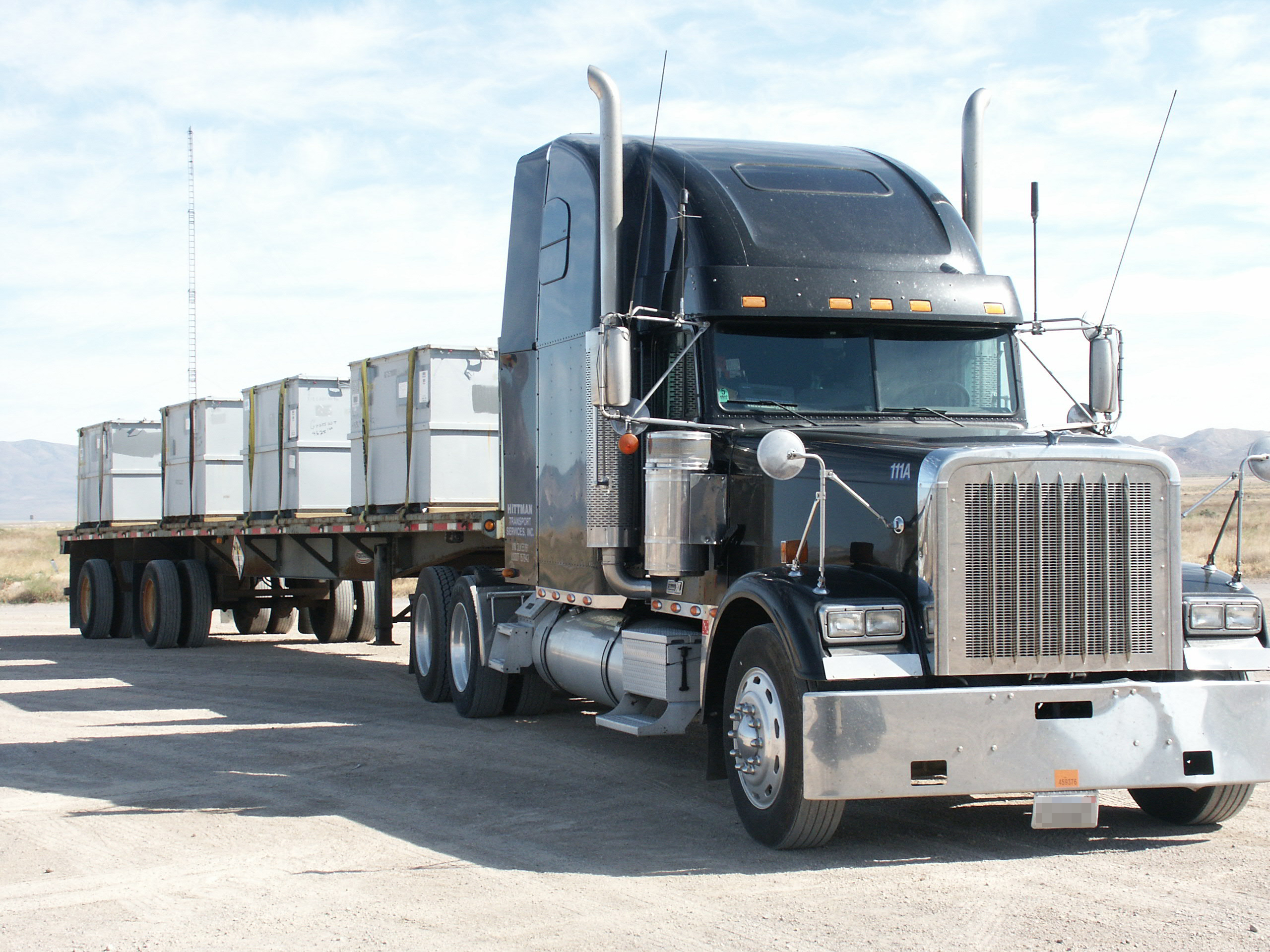 Shipment of low-level waste contained in metal boxes awaits unloading and disposal at the Area 3 Radioactive Waste Management Site located on the Nevada Test Site